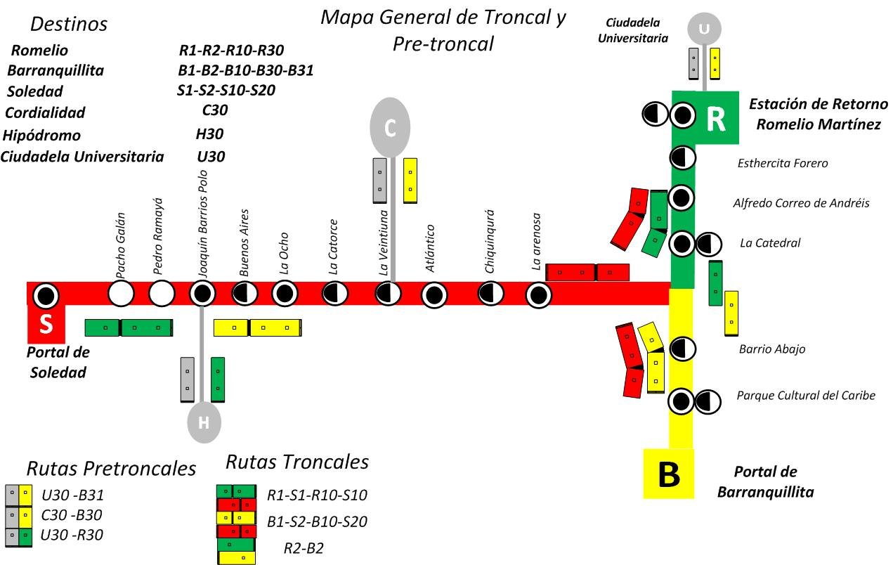 general map